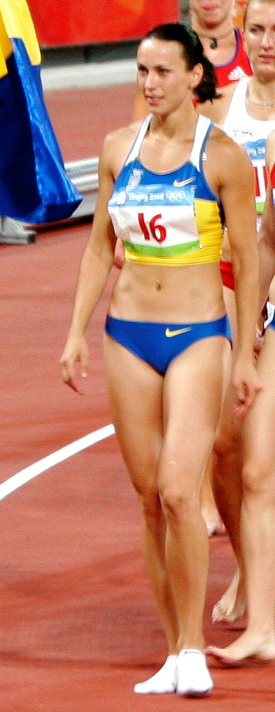 Ukrainian heptathlete Hanna Melnychenko walks with other competitors around the track at the 2008 Summer Olympics in Beijing, China.